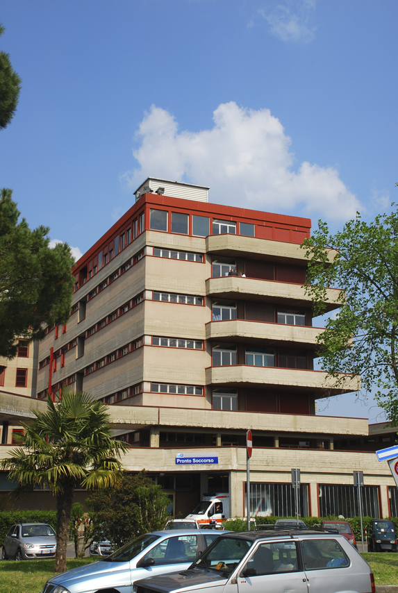 New San Giovanni di Dio Hospital or Torregalli Hospital, Florence, Italy. Emergency Department.